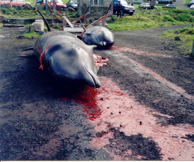 Whaling in the Faroe Islands Northern bottlenose whales are sometimes stranded in places where there is an isthmus, like in the villages, especially in the villages of Hvalba and Sandvík on Suðuroy in the Faroe Islands. The whales are then used for human consumption for the local villagers. It is believed, that the whale by mistake swims to near land and because there is no high mountain where the isthmus is, it swims to near to the beach and can't get away again.